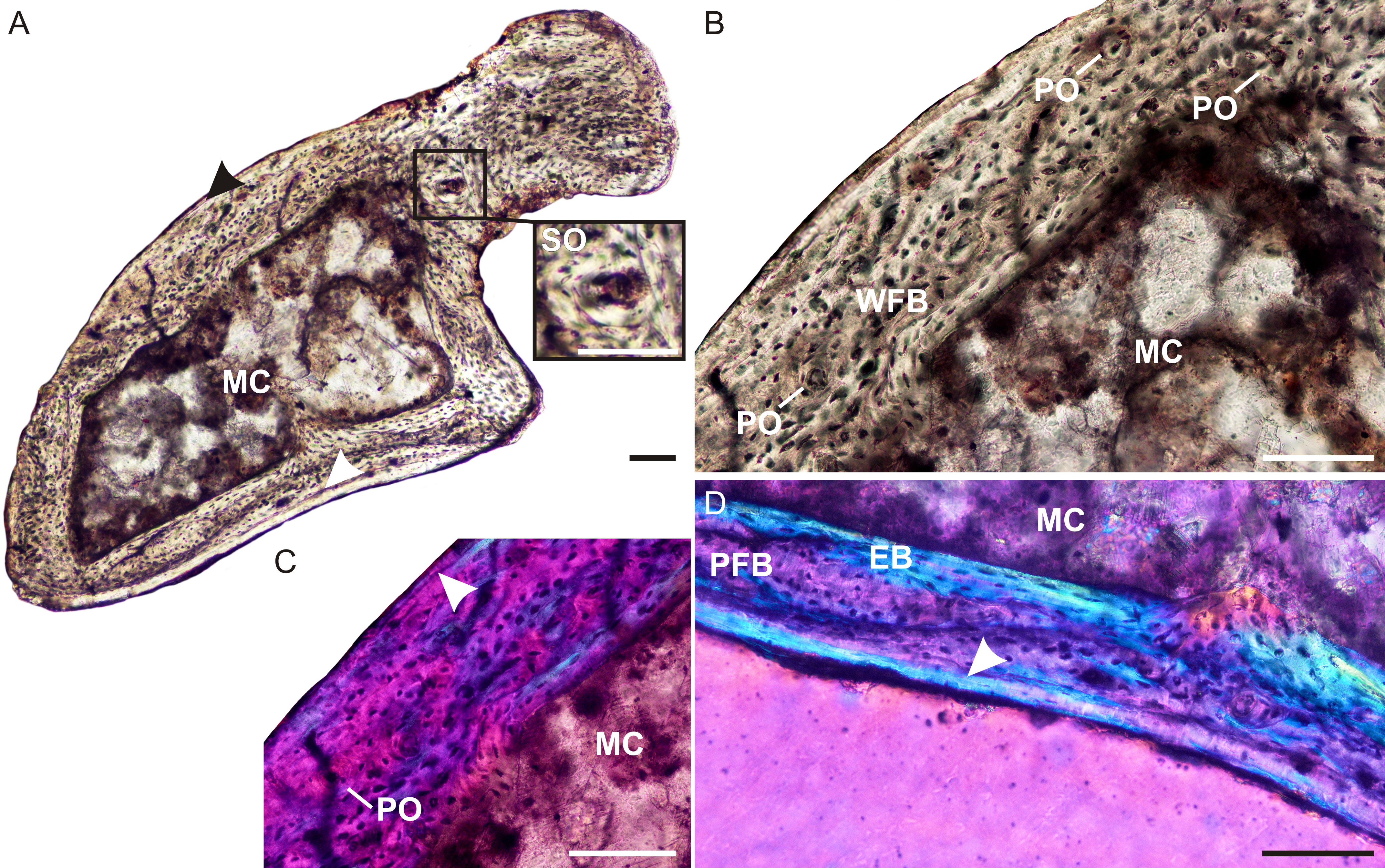 Ulna osteohistology of Brasilodon quadrangularis, Candelária Formation, Paraná Basin, Brazil